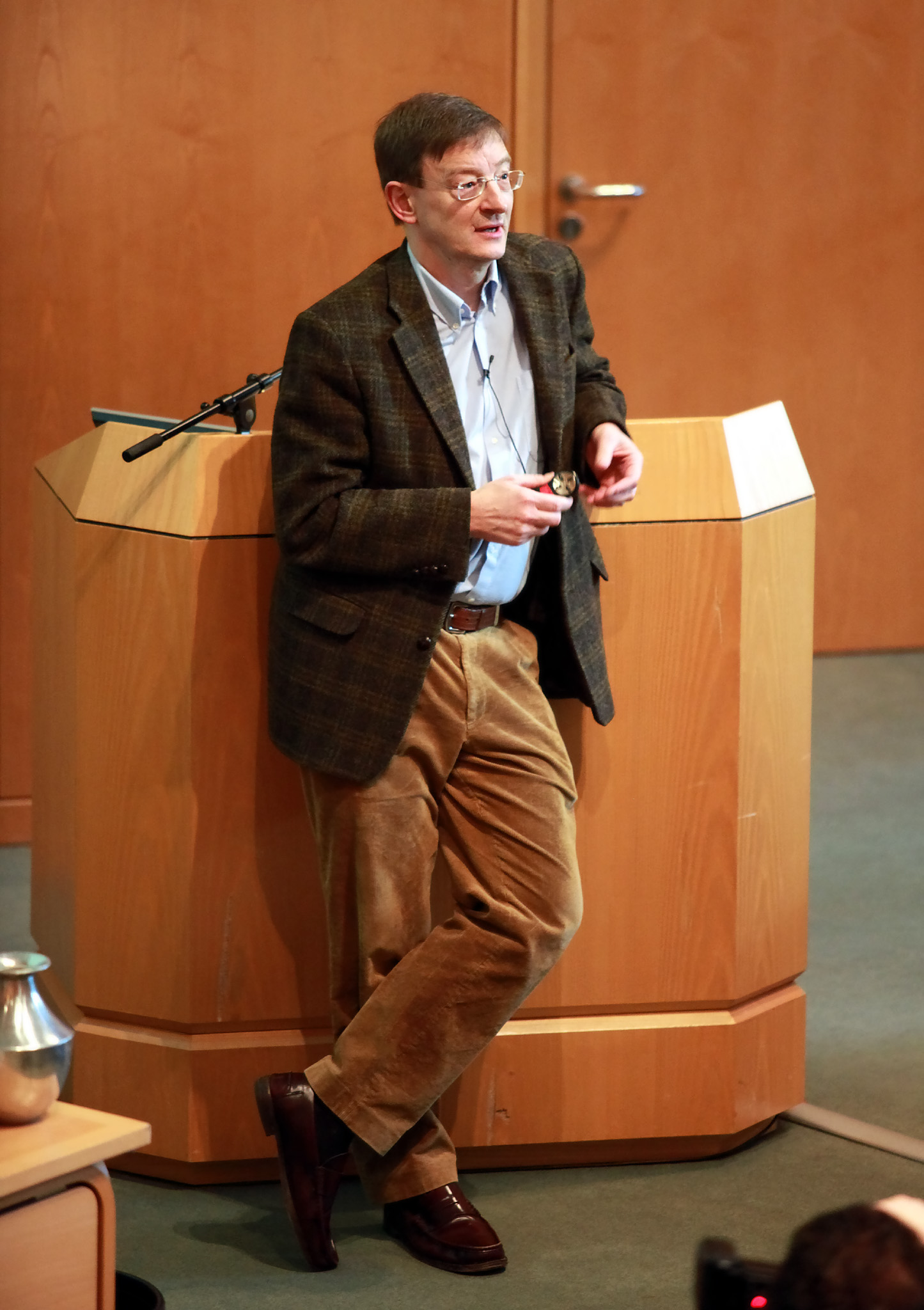 Otmar D. Wiestler, president of the German Cancer Research Center (DKFZ).